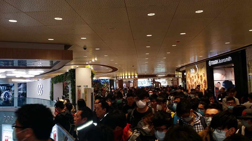 Tuen Mun V city Protest